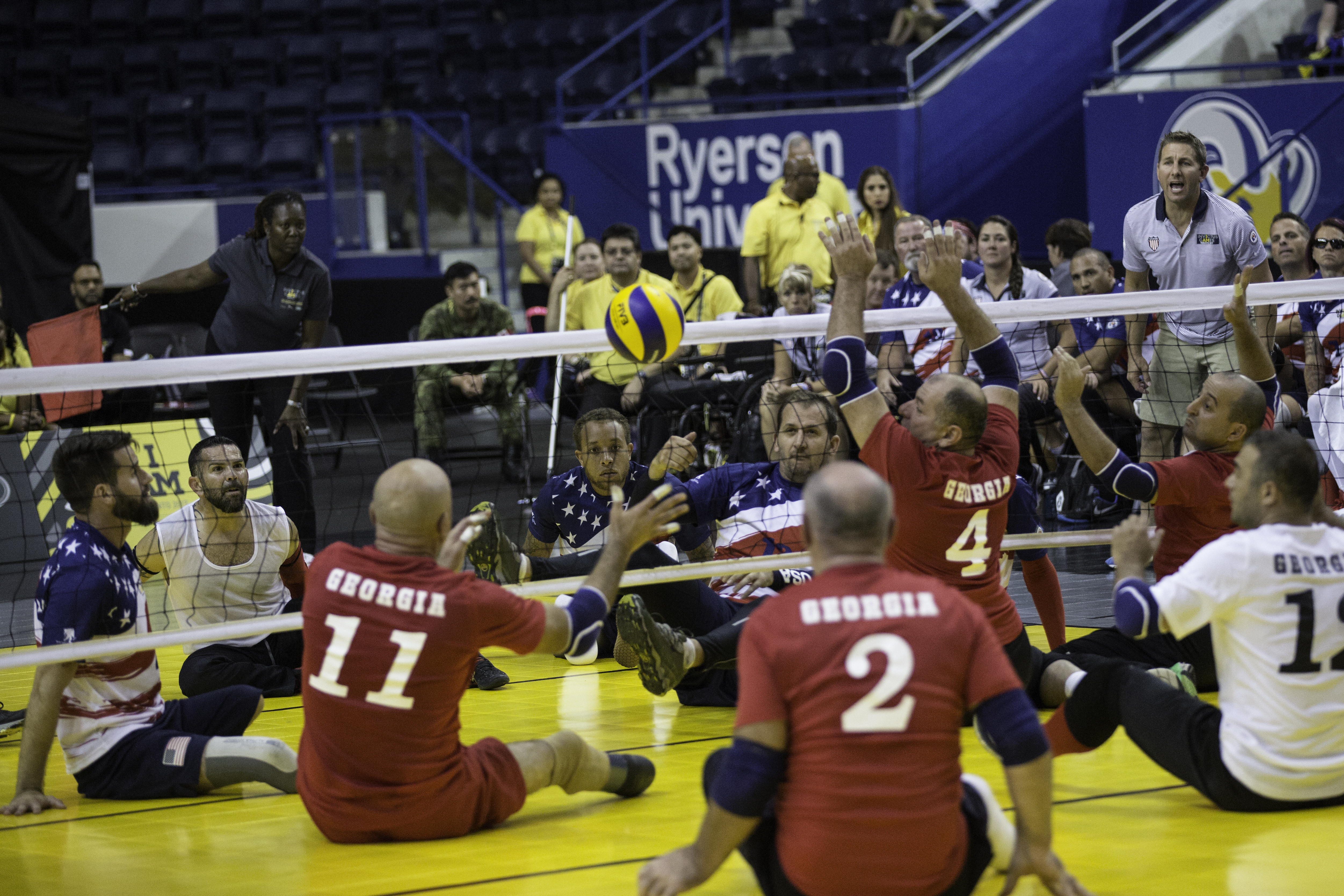 Team U.S. attends the Sitting Volleyball event during the Invictus Games at Ryerson's Mattamy Athletic Centre (MAC), Toronto, Canada, Sept. 27, 2017. Invictus Games, September 23-30, is an international Paralympic-style, multi-sport event, created by Prince Harry of Wales, in which wounded, injured or sick armed services personnel and their associated veterans take part in sports including wheelchair basketball, wheelchair rugby, sitting vollyball, archery, cycling, wheelchair tennis, powerlifting, golf, swimming, and indoor rowing. (U.S. Army photo by Pfc. Seara Marcsis) Unit: 55th Combat Camera DVIDS Tags: Toronto; WTC; Army; WarriorTransitionCommand; IG; CombatCamera; TeamUSA; InvictusGames; ArmyWarriorCare; 2017InvictusGames; InvictusGames2017; WarriorCareandTransition; TeamUSA2017; Invictus2017; Canada2017; Army55thSignalCompany